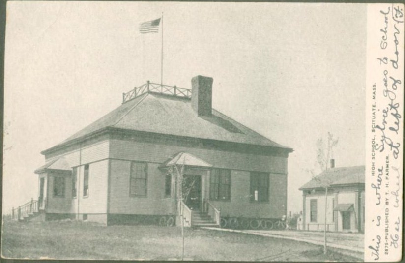 Postcard picture of Scituate High School in Scituate, Massachusetts, sometime between 1901 and 1907